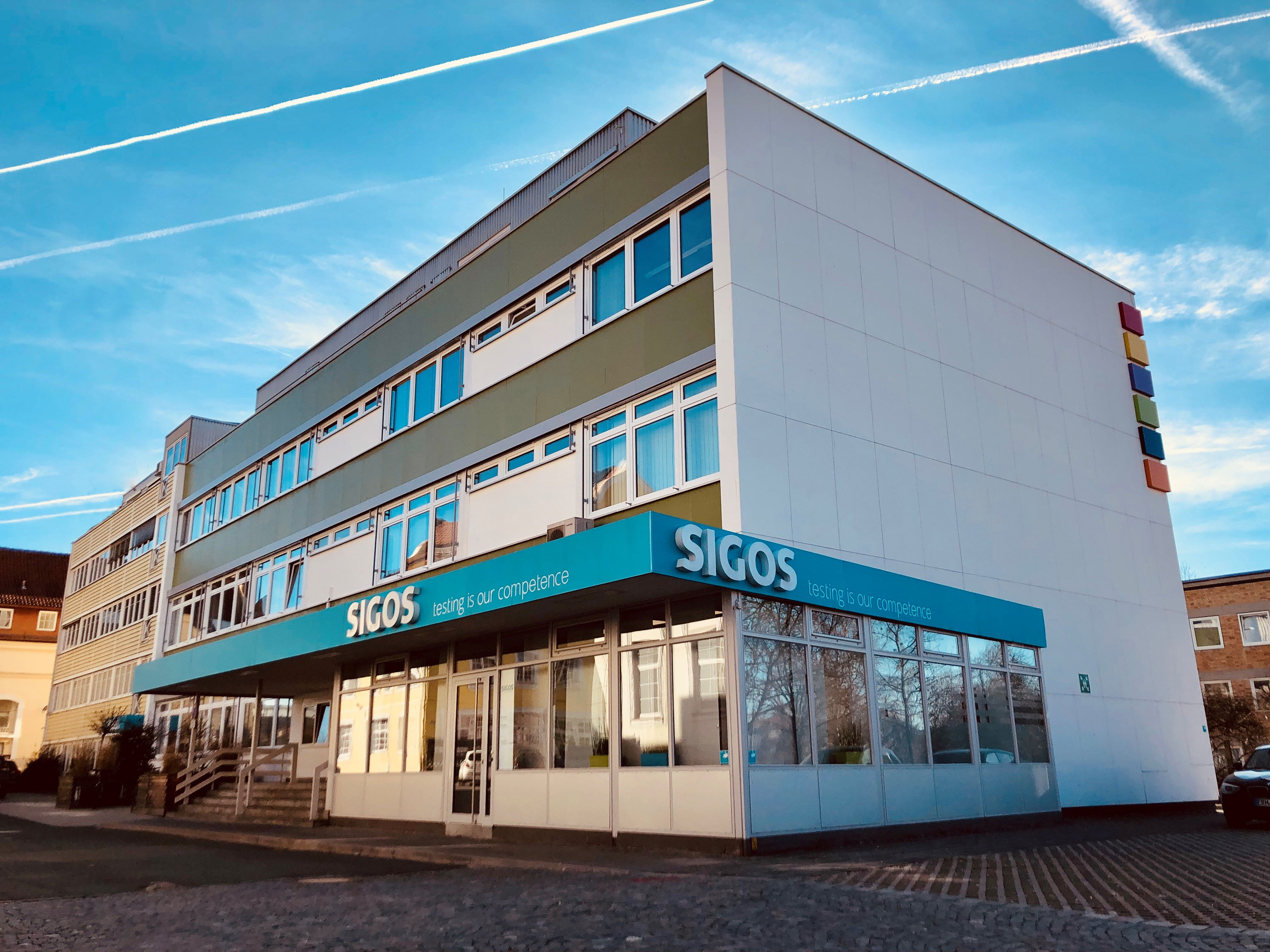 Picture of SIGOS' Headquarters located in Nuremberg, Germany